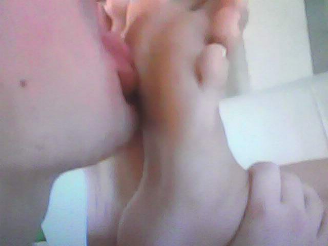 podophilia (foot fetishism)